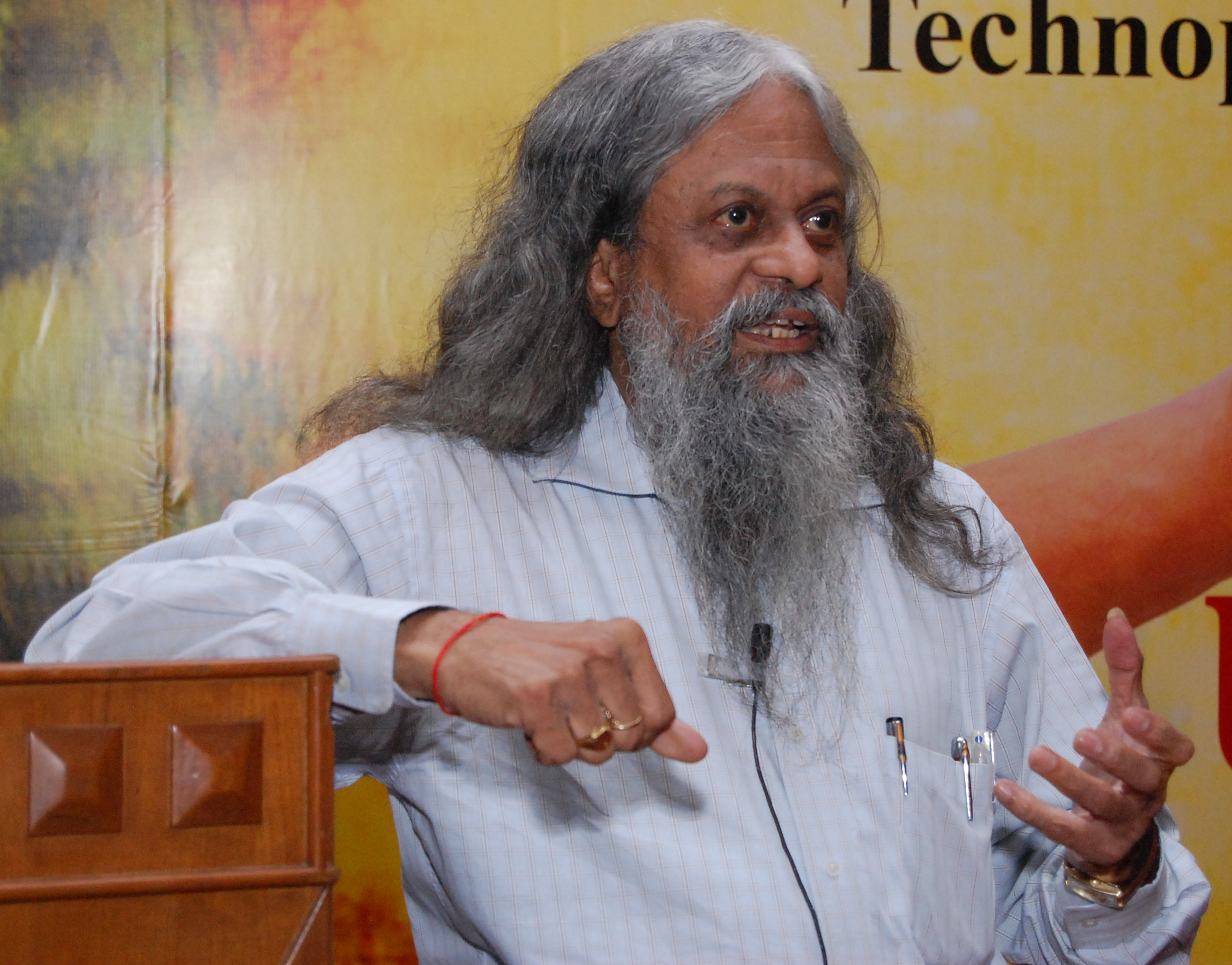 Yagnaswami Sundara Rajan at Uddyam 2010, an entrepreneurship event organized by SP Jain Institute of Management and Research (SPJIMR) Mumbai on 7 February 2010.